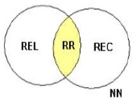 conjuntos modelo probabilistico